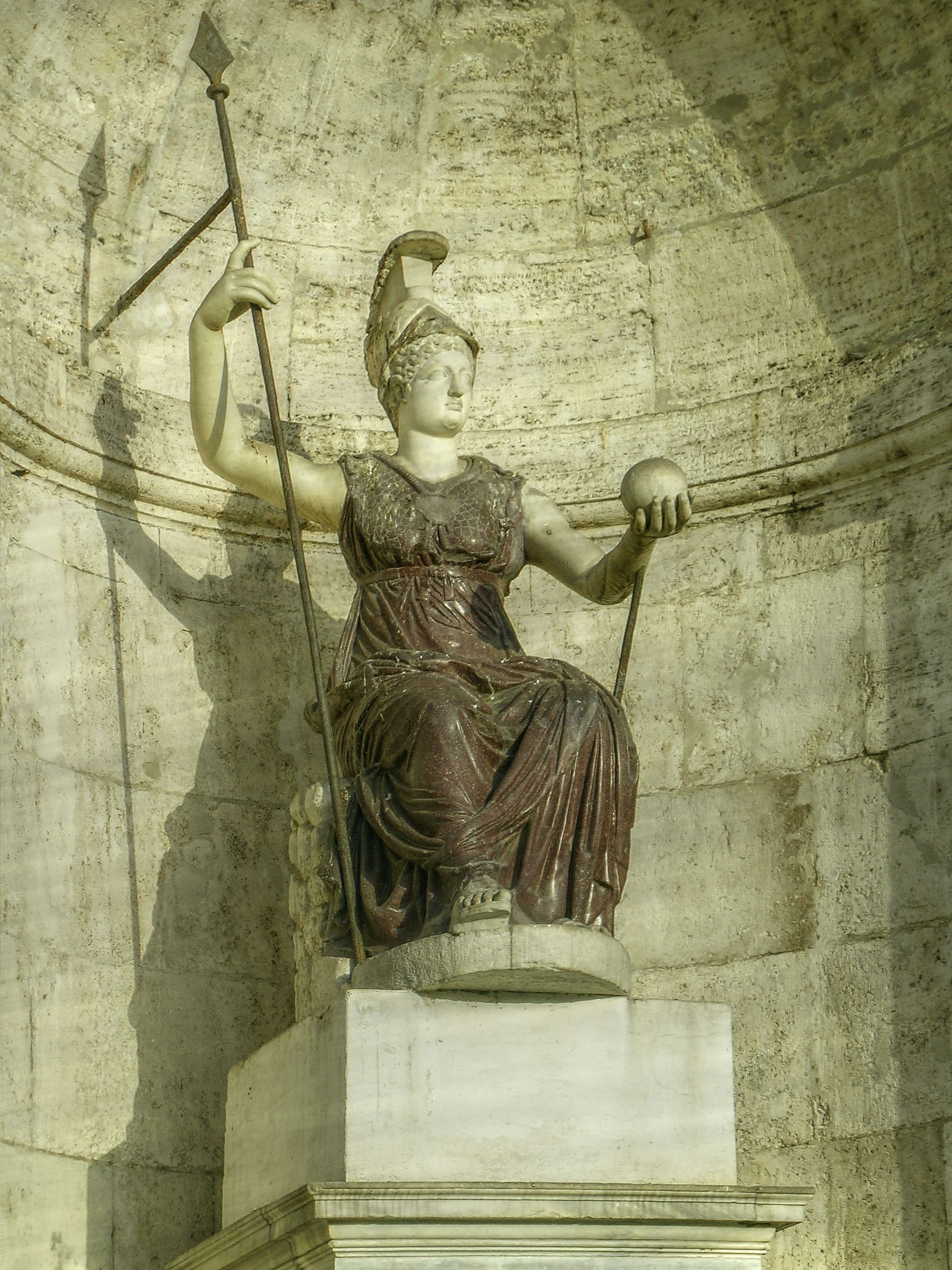 the statue of Roma goddess Roma triumphans next to the fountain in Capitolium square in Rome, Italy.